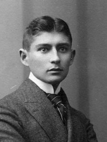 3:4 Portrait crop of Franz Kafka